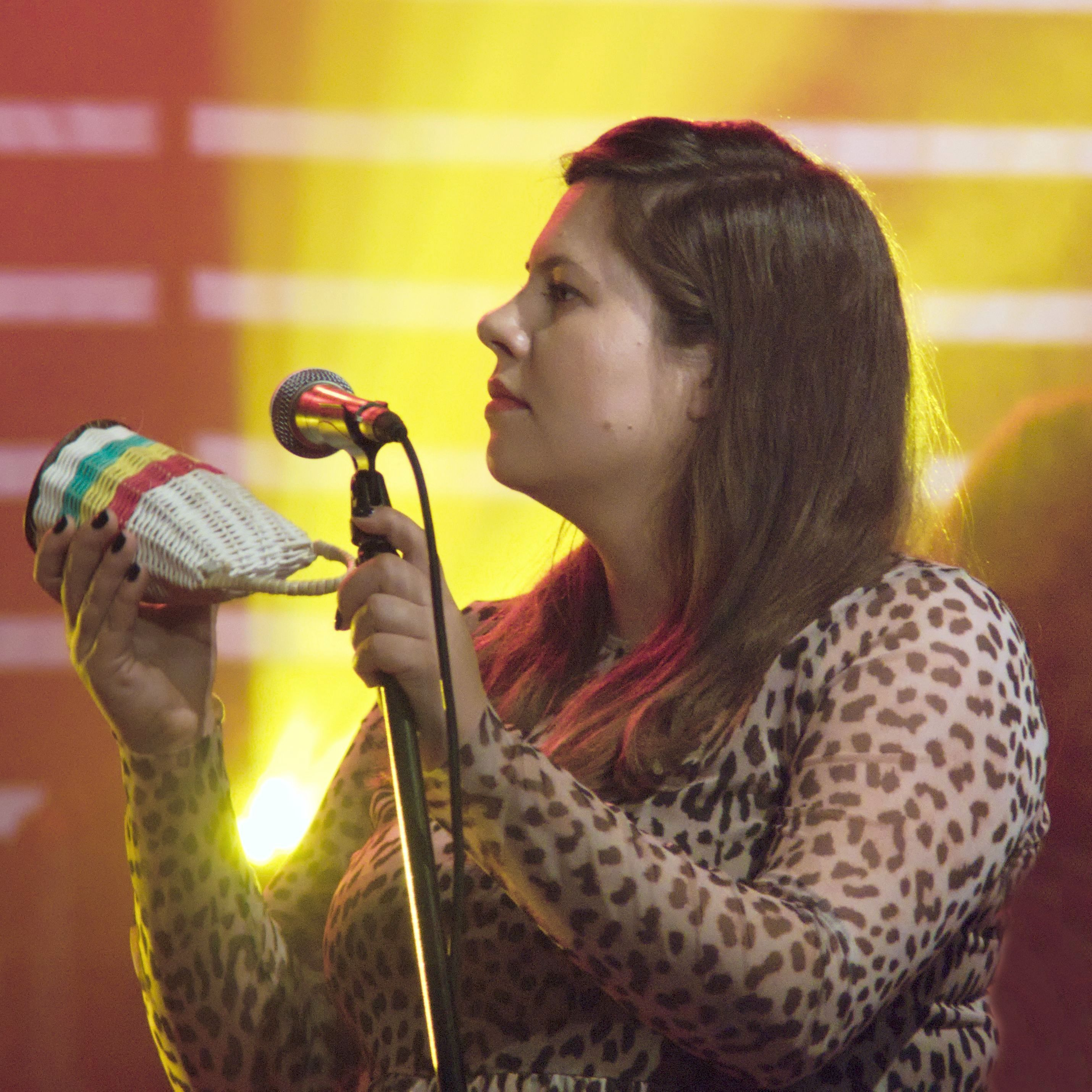 Monika Borzym during Voo Voo concert in Katowice, Sejmu Śląskiego square, photo taken with permission of Voo Voo manager, Mariusz Dettlaff